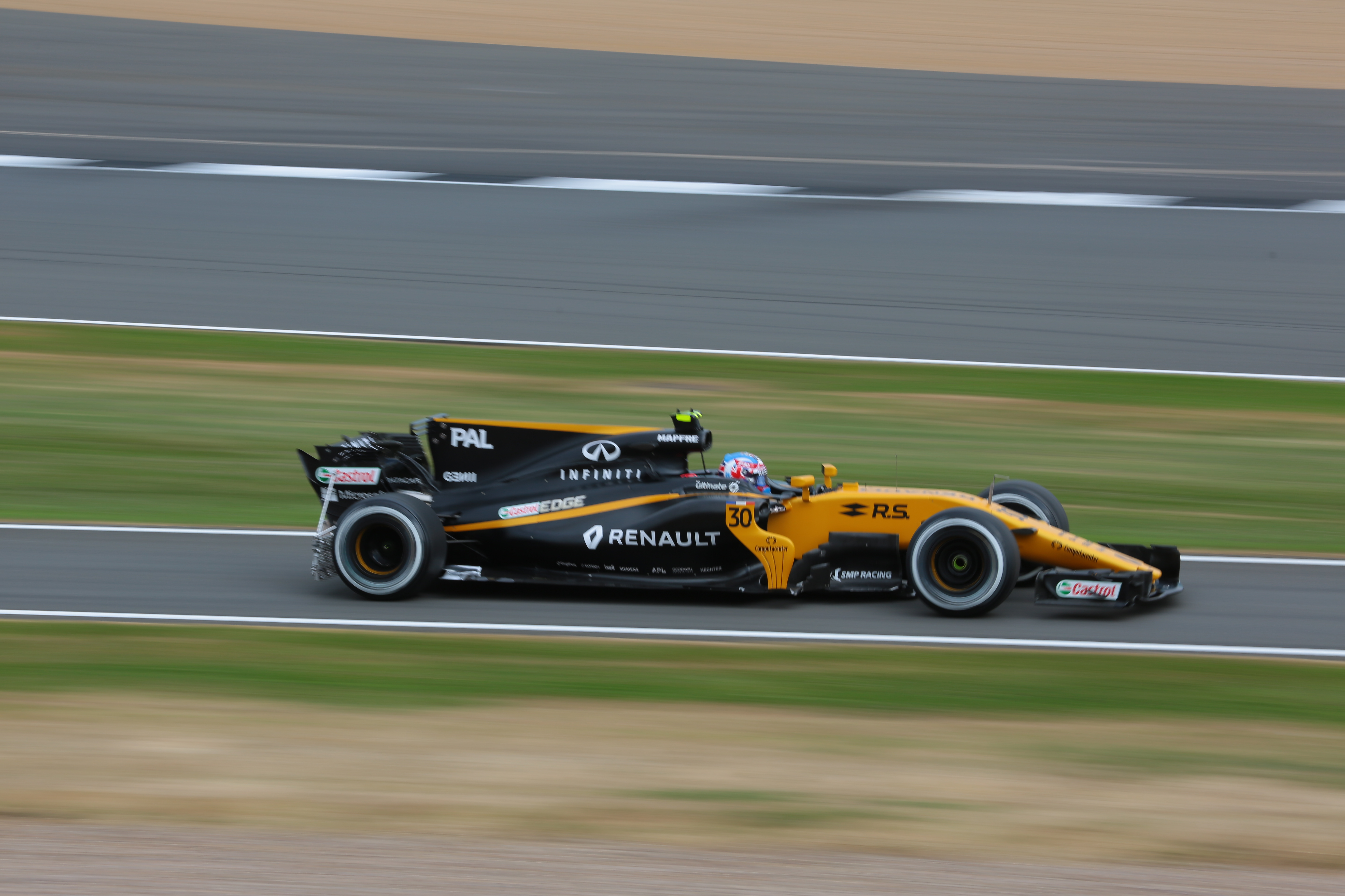 Renault R.S.17 of Jolyon Palmer during a test session at the 2017 British Grand Prix. A rack of Pitot tubes is visible installed behind the aft right wheel.